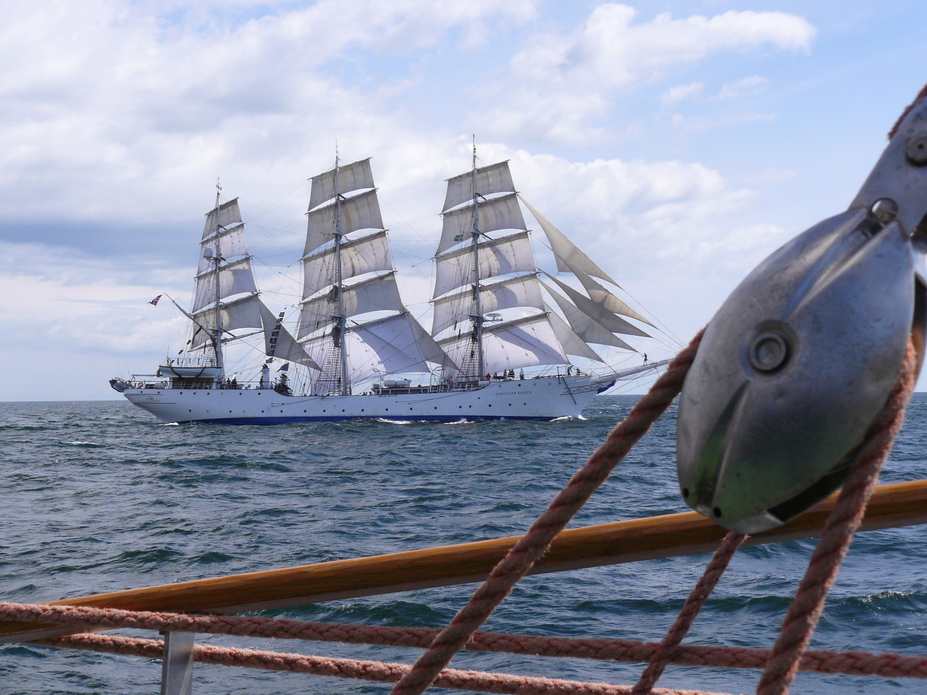 Christian radich